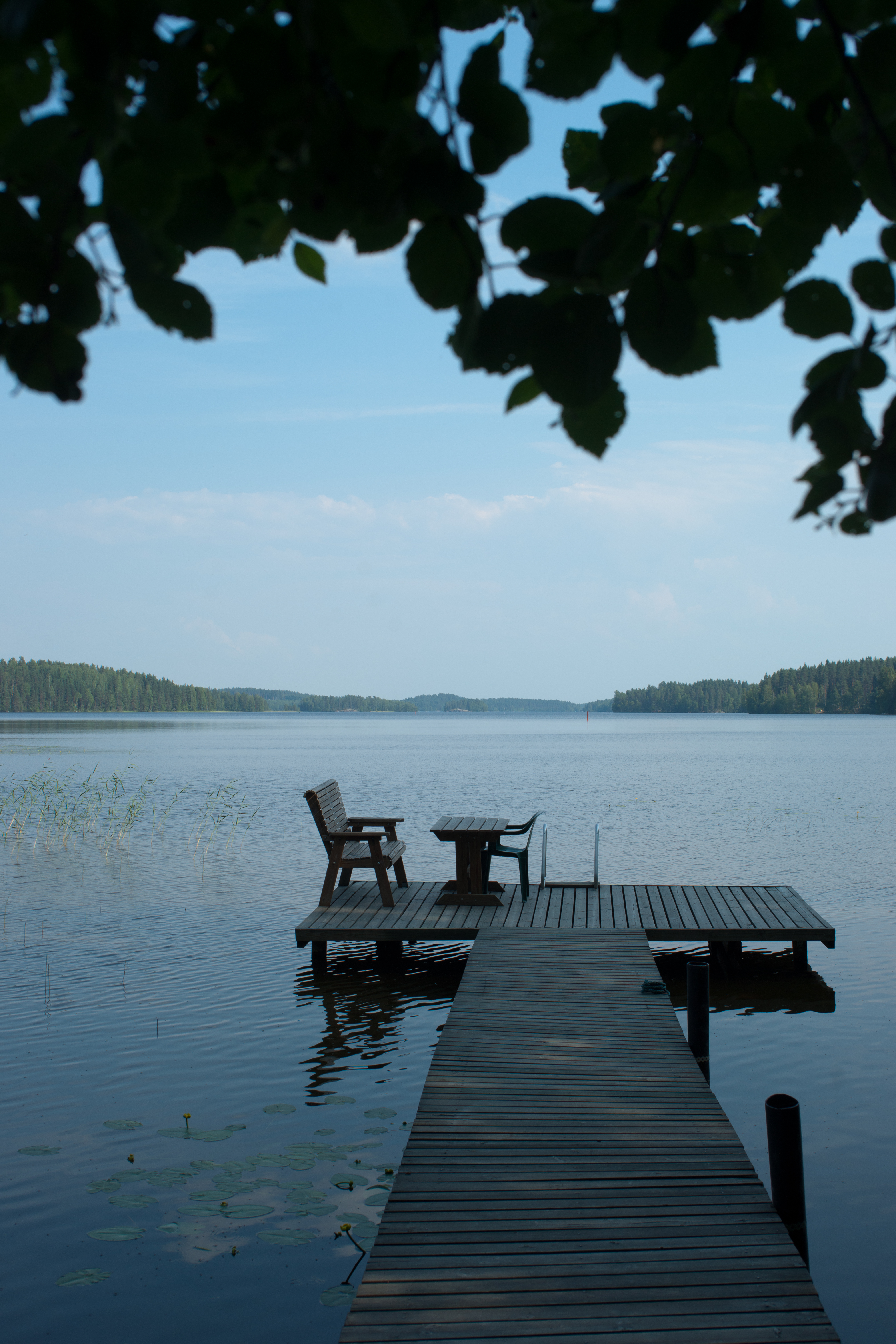 Lake Suontee in Joutsa, Finland